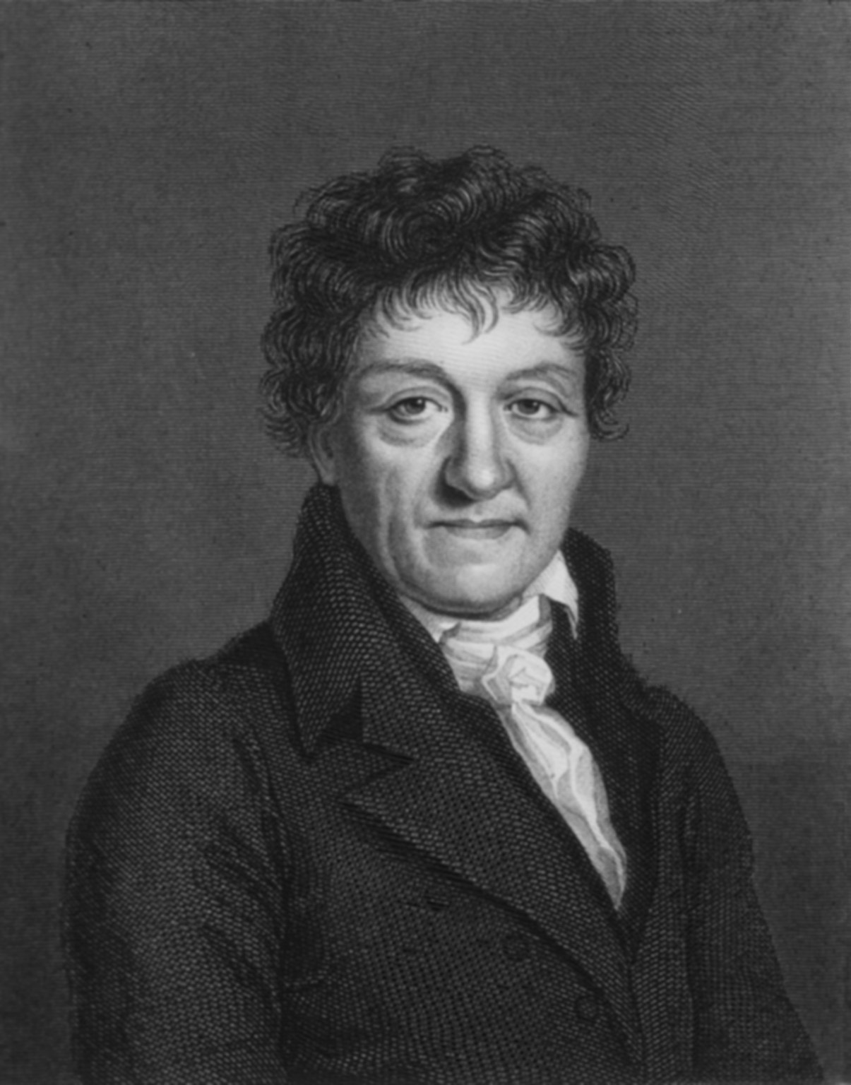 Lazare Nicolas Marguerite, Comte Carnot (13 May 1753 – 2 August 1823). Father of Sadi Carnot (1796 - 1832).